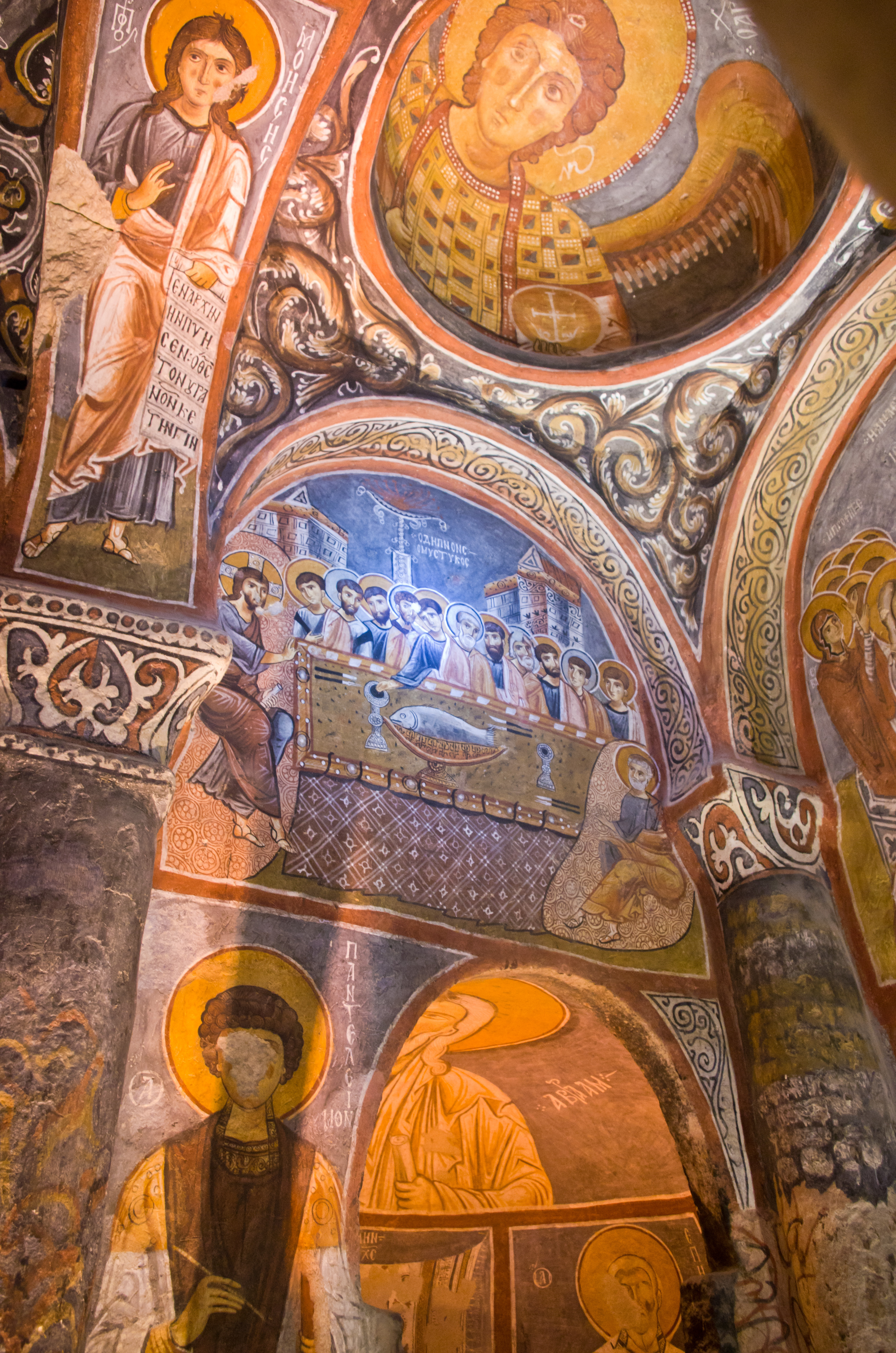 Karanlik kilise ( Dark church )